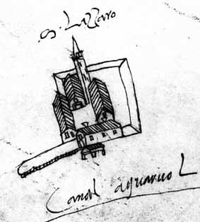 The island of San Lazzaro in a map dating from the second half of the 16th (Venice StateArchive, SEA, Lidi, dis. 63).